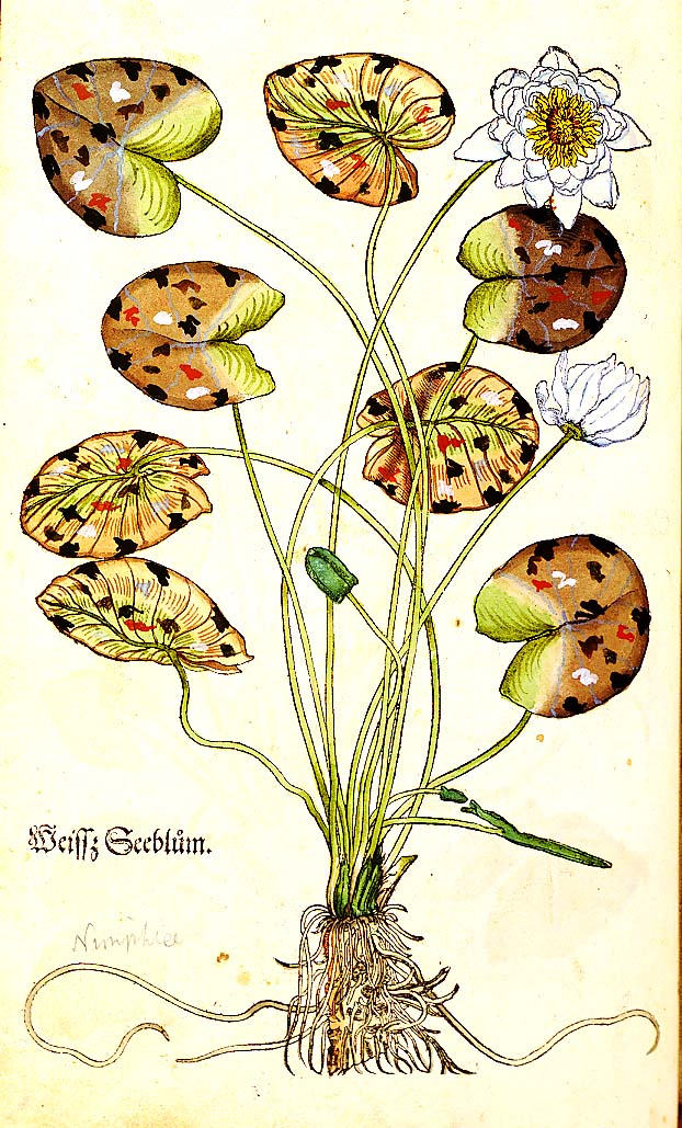 Plate: Nymphaea alba, also known as the European White Waterlily, White Lotus, or Nenuphar from "Herbarium Vivae Eicones"